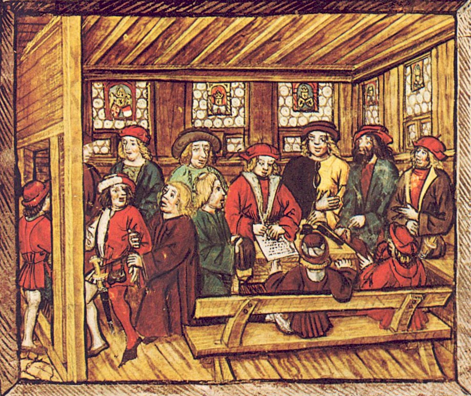 A plate from the Amtliche Luzerner Chronik of 1513 of Diebold Schilling the Younger, illustrating the events of the Tagsatzung at Stans in 1481. Am Grund returned to the Tagsatzung and related Niklaus' advice, whereupon the delegates compromised. Am Grund is shown holding back a bailiff who wants to go spread the news already